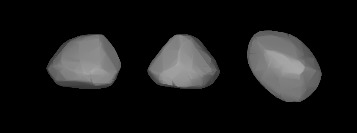 A three-dimensional model of 595 Polyxena that was computed using light curve inversion techniques.